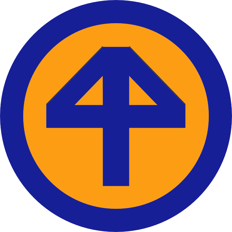 U.S. Army's 44th Infantry Division—now the 44th Infantry Brigade Combat Team—Shoulder Sleeve Insignia